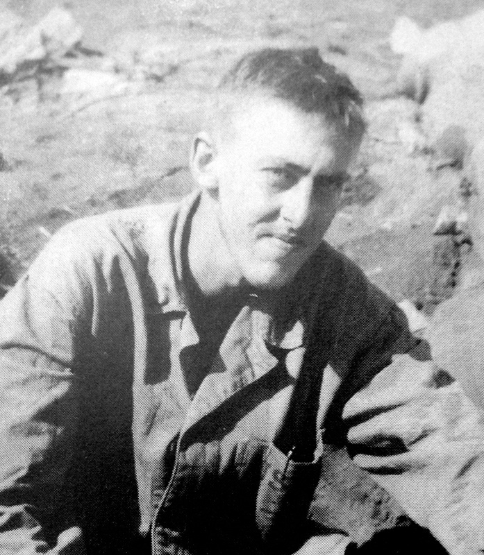 Future Major general Fred E. Haynes Jr., USMC shown here as Captain during the battle of Iwo Jima in February 1945.